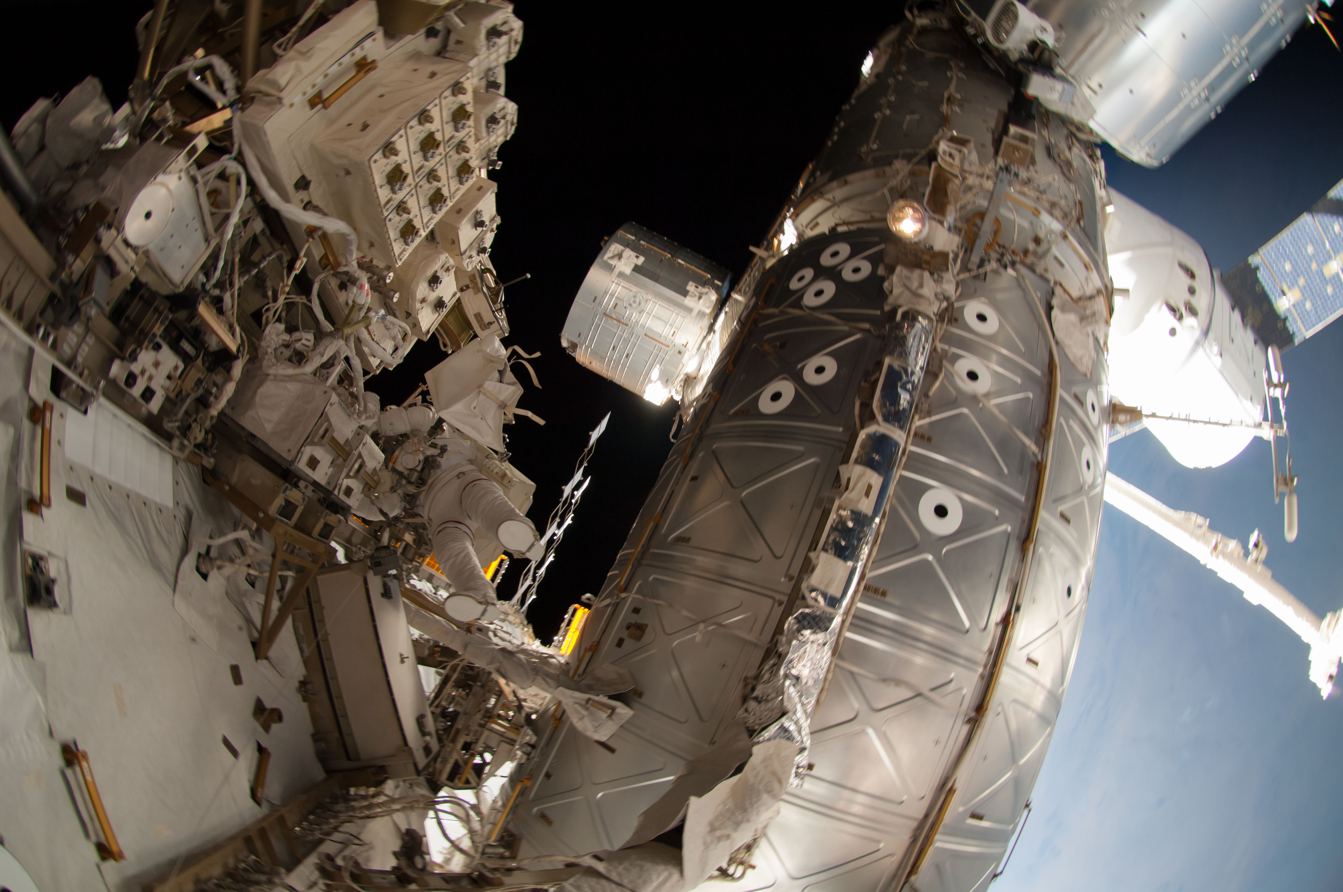 EVA view of the ISS mounting structure